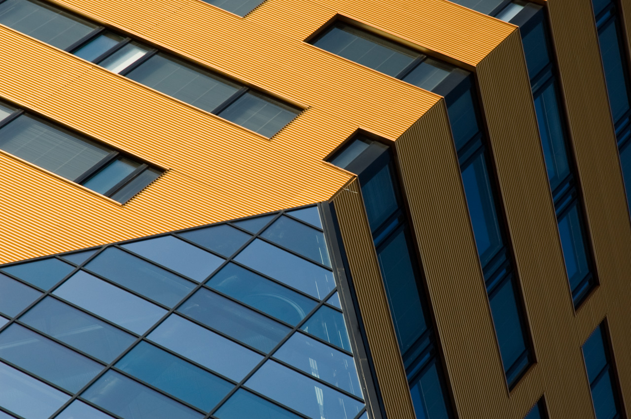 Building located at Vuosaari harbour.